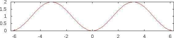 Plot of the versin function.